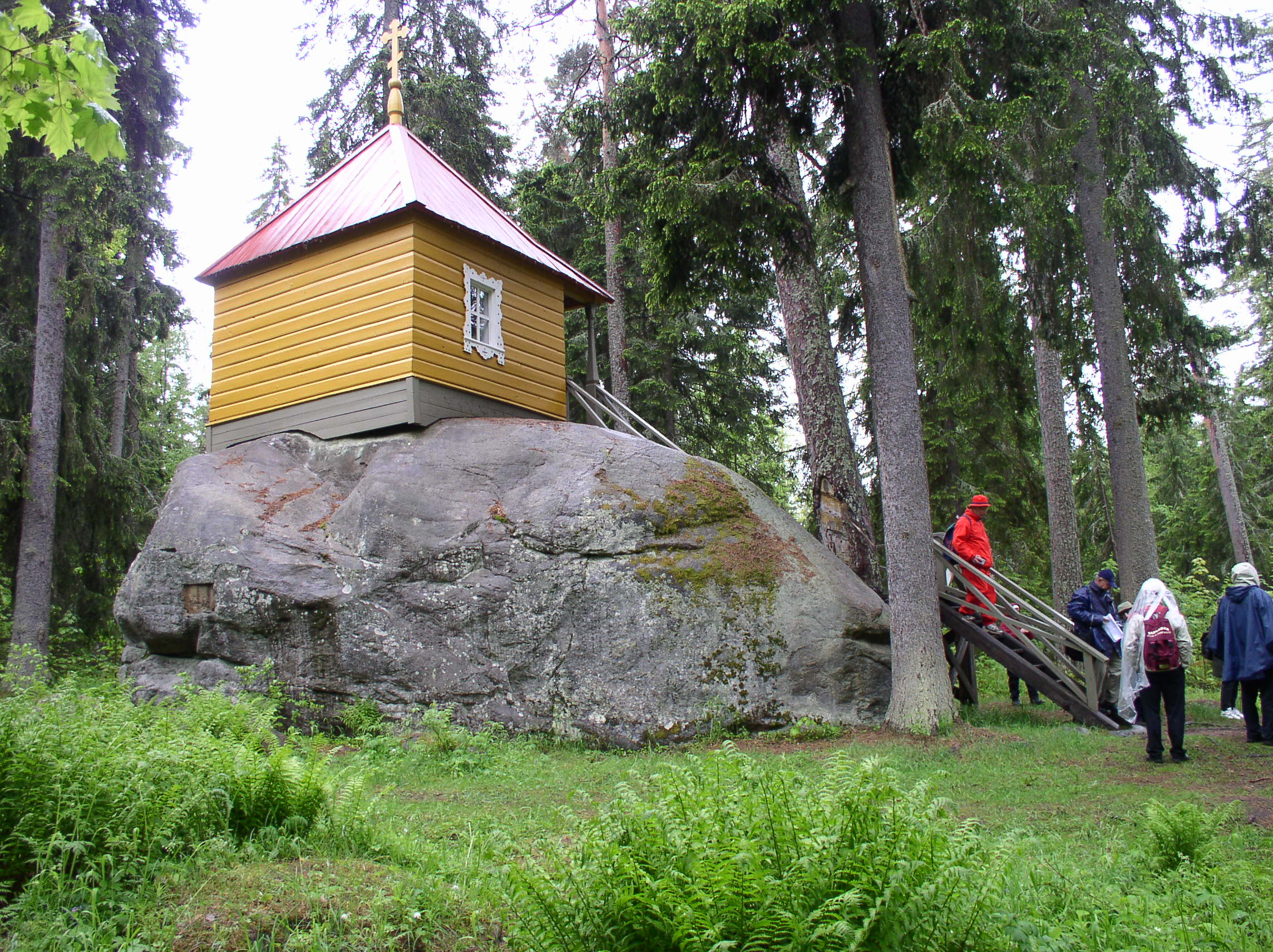 The Horse Stone and a chapel on top of the stone in Konevets Island in Lake Ladoga, Russia. According to a legend of founding of the Konevsky Monastery the Horse Stone was a sacrificial site of local pagan Karelians until the monastery took over the control of the island.